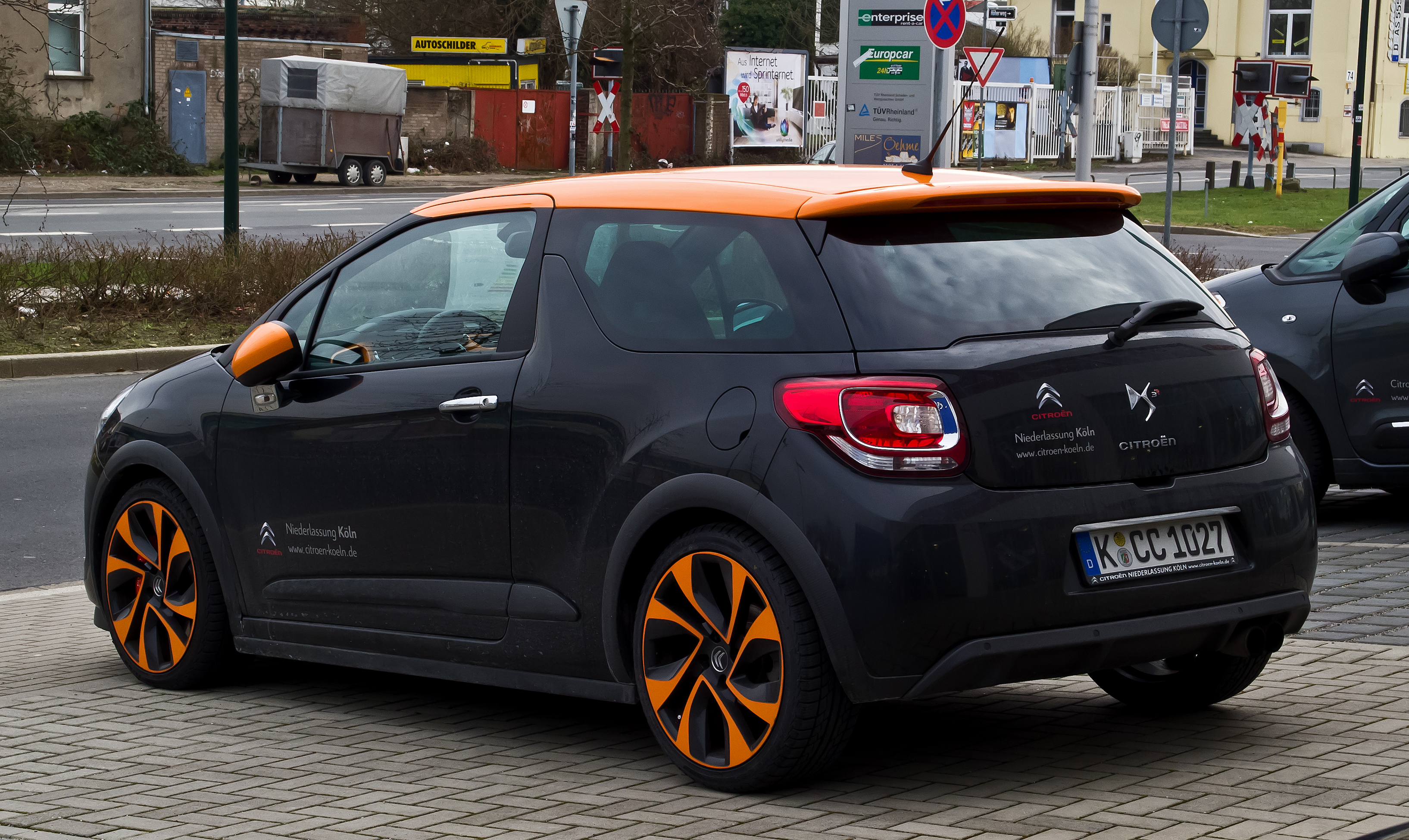 Citroën DS3 THP 200 Racing